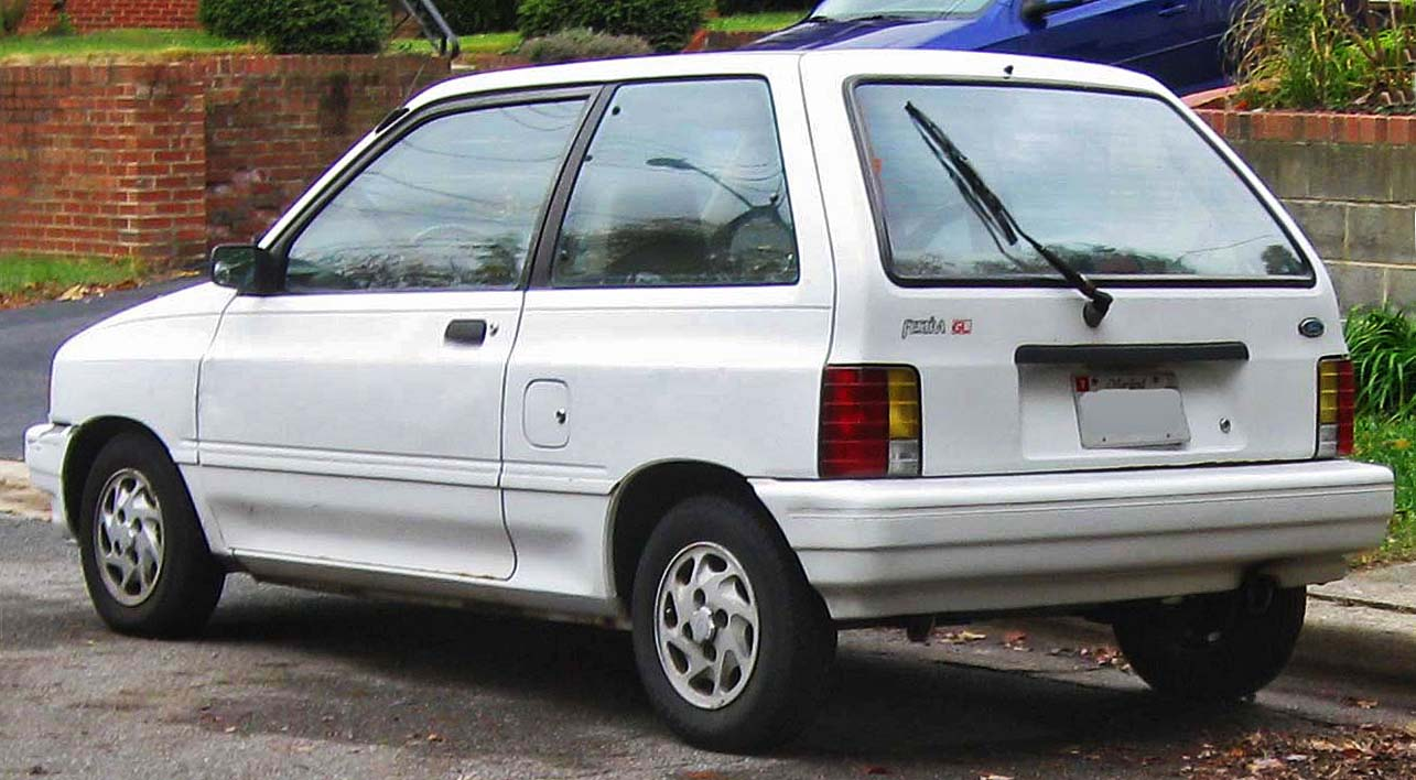 1992-1993 Ford Festiva GL photographed in College Park, Maryland, USA.